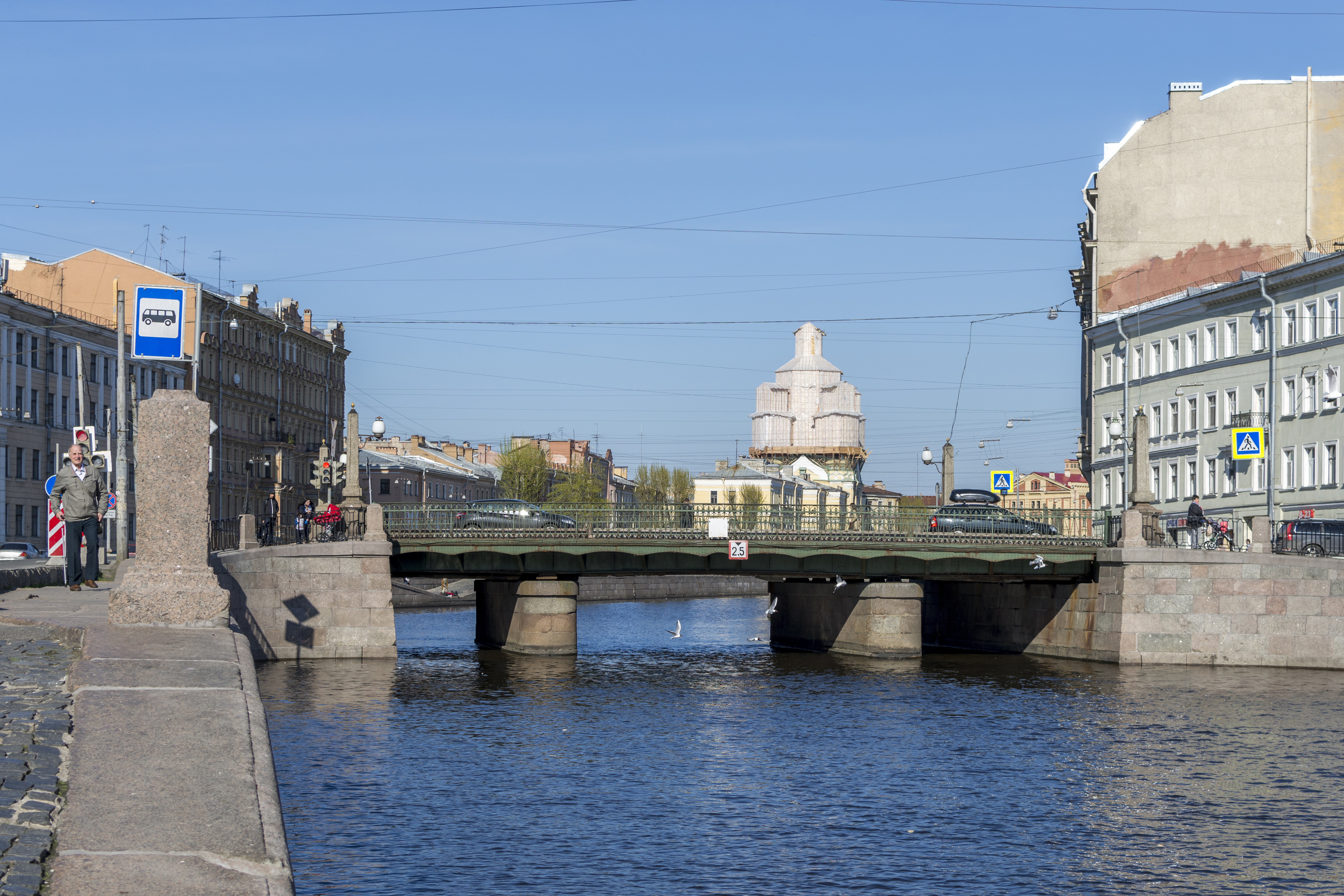 Alarchin Bridge in Saint Petersburg